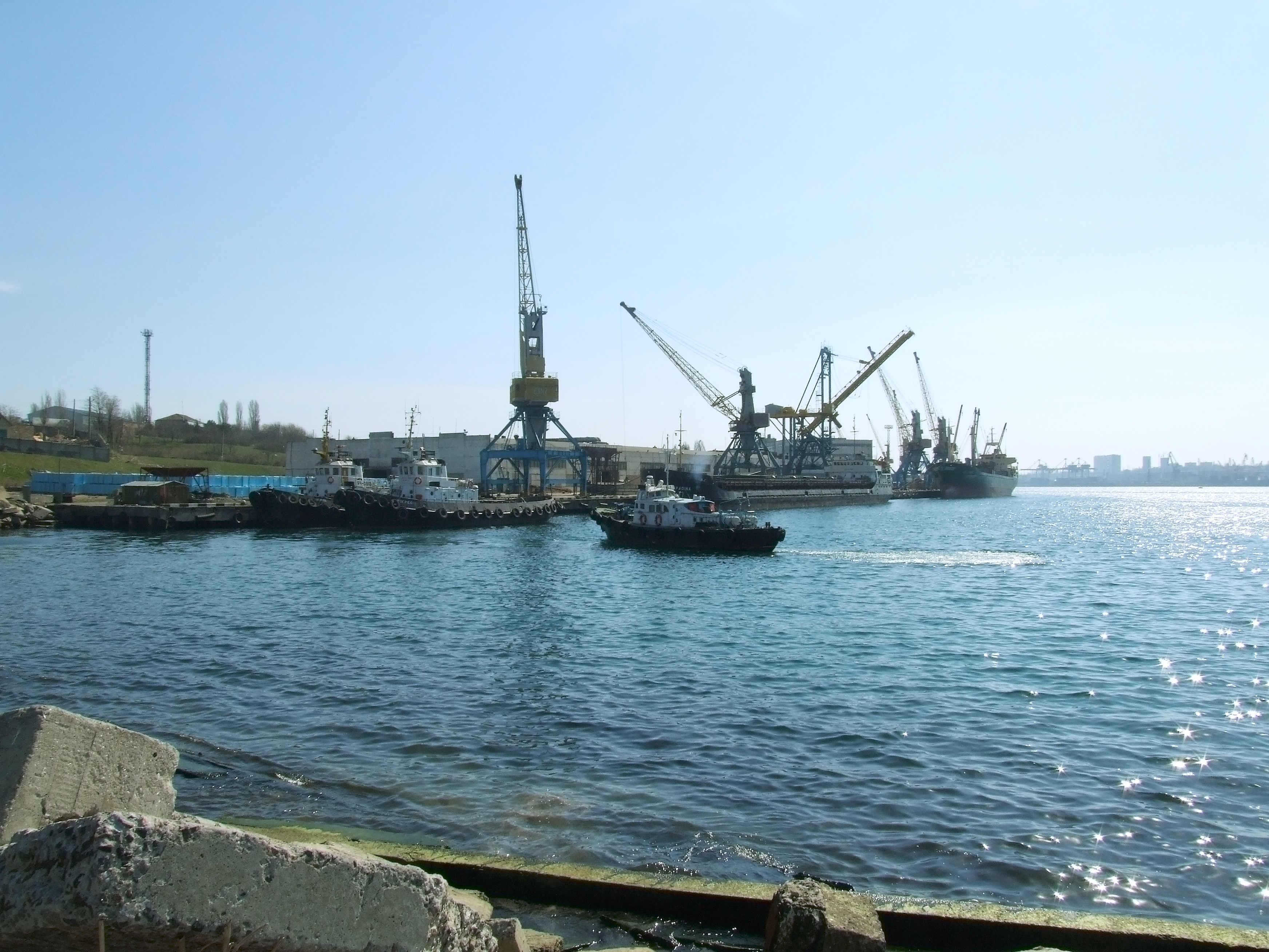 The fishing port in Burlacha Balka, Odessa Oblast, Ukraine